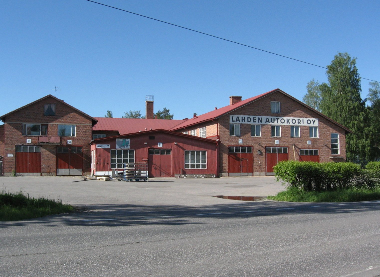 Old part of bus/coach builder Lahden Autokori's older plant at Villähde, Finland.